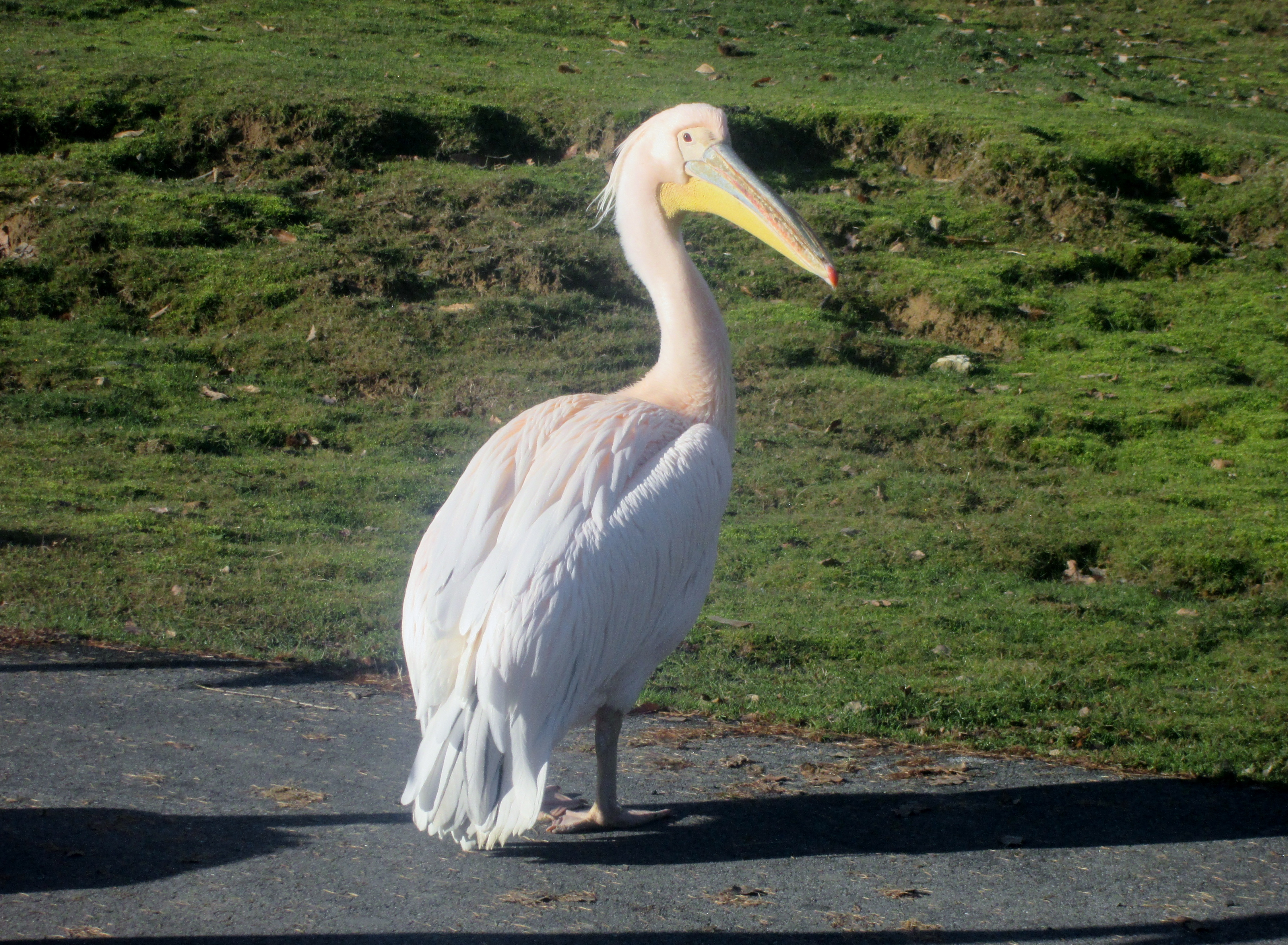 Great White Pelican at Pombia Safari Park ITALY